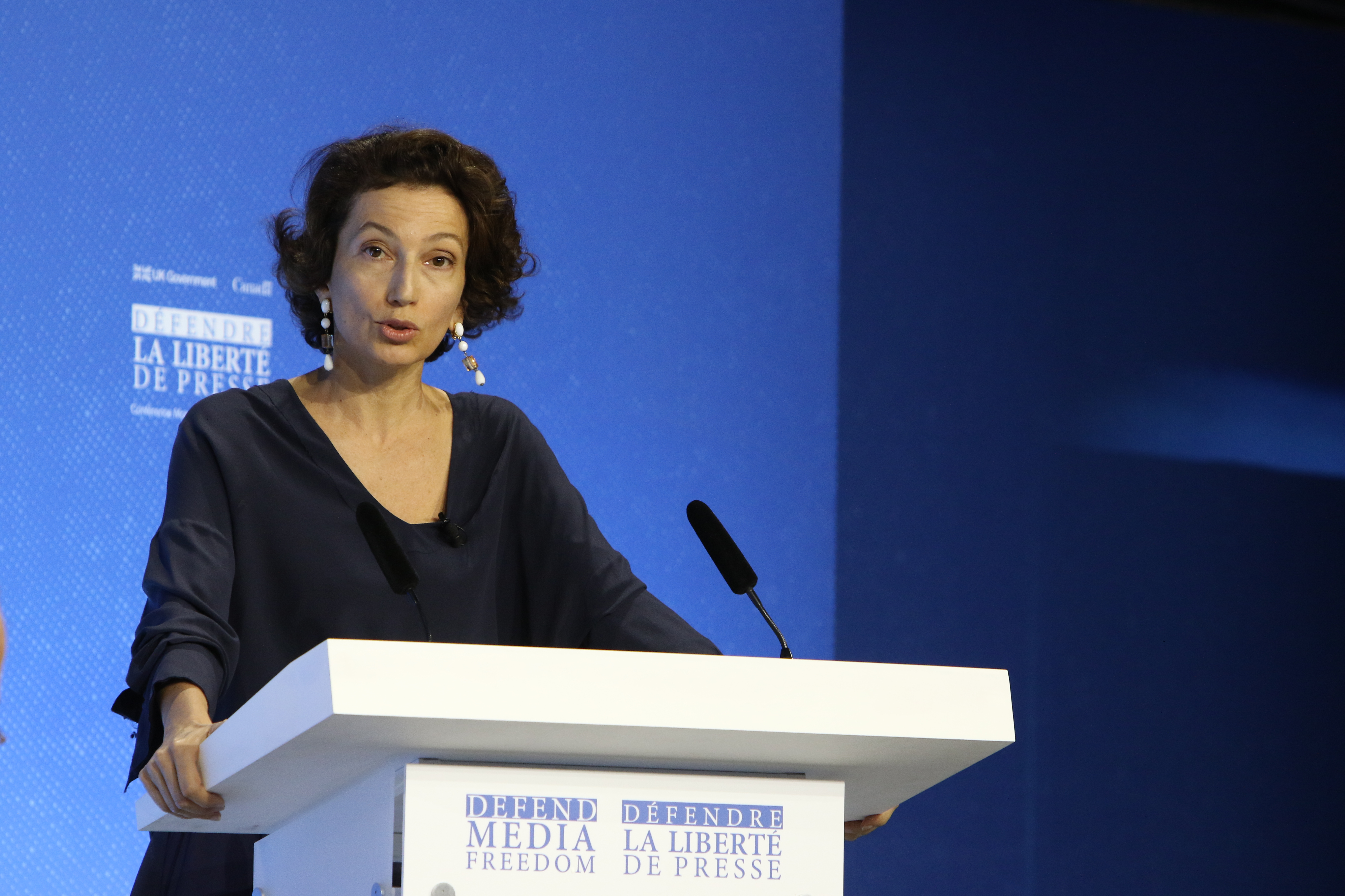 Audrey Azoulay, Director General, UNESCO at the Global Conference for Media Freedom in London.